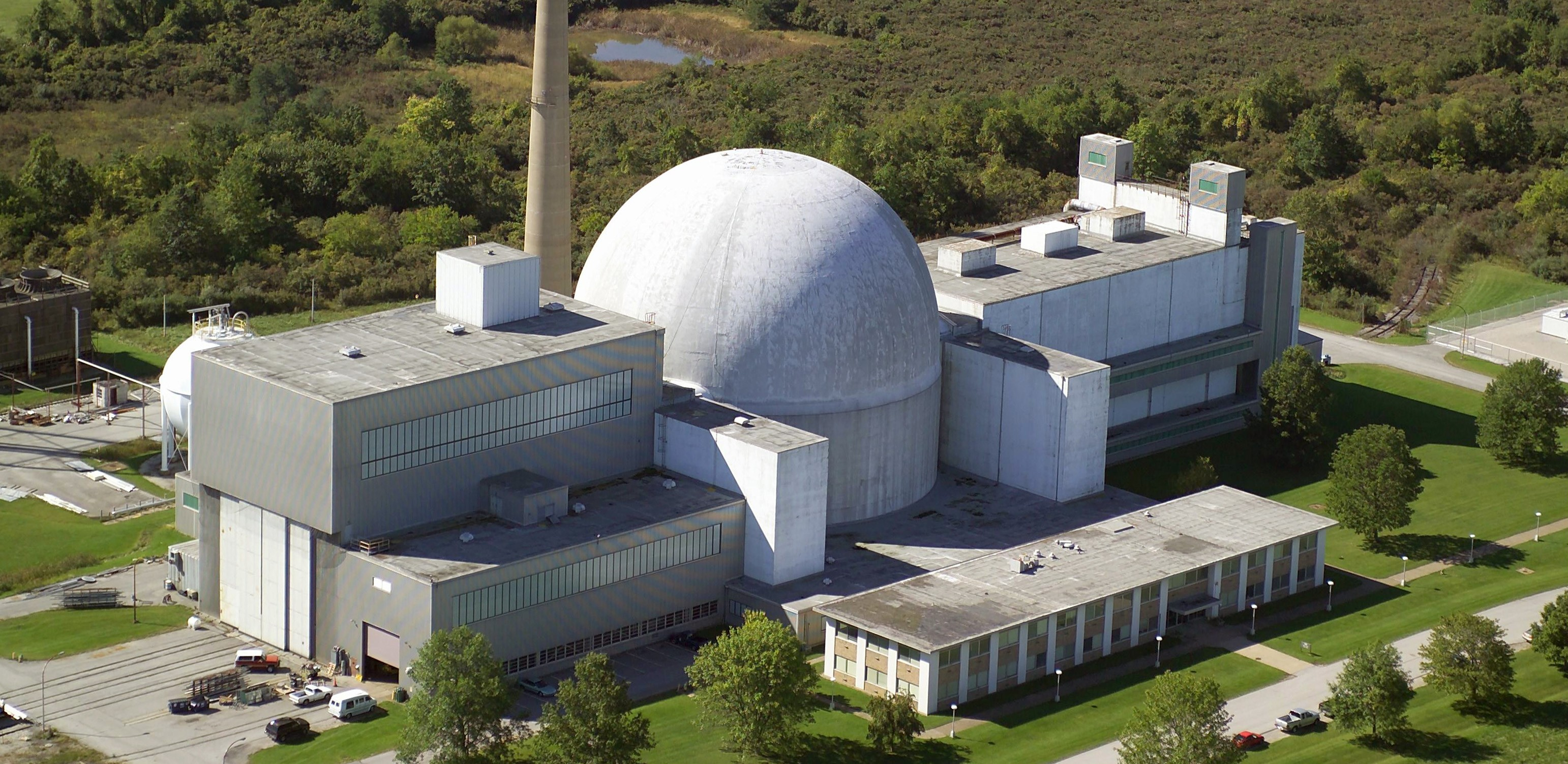 Aerial view of NASA's Space Power Facility, part of Plum Brook Station, a subsidiary of Glenn Research Center.